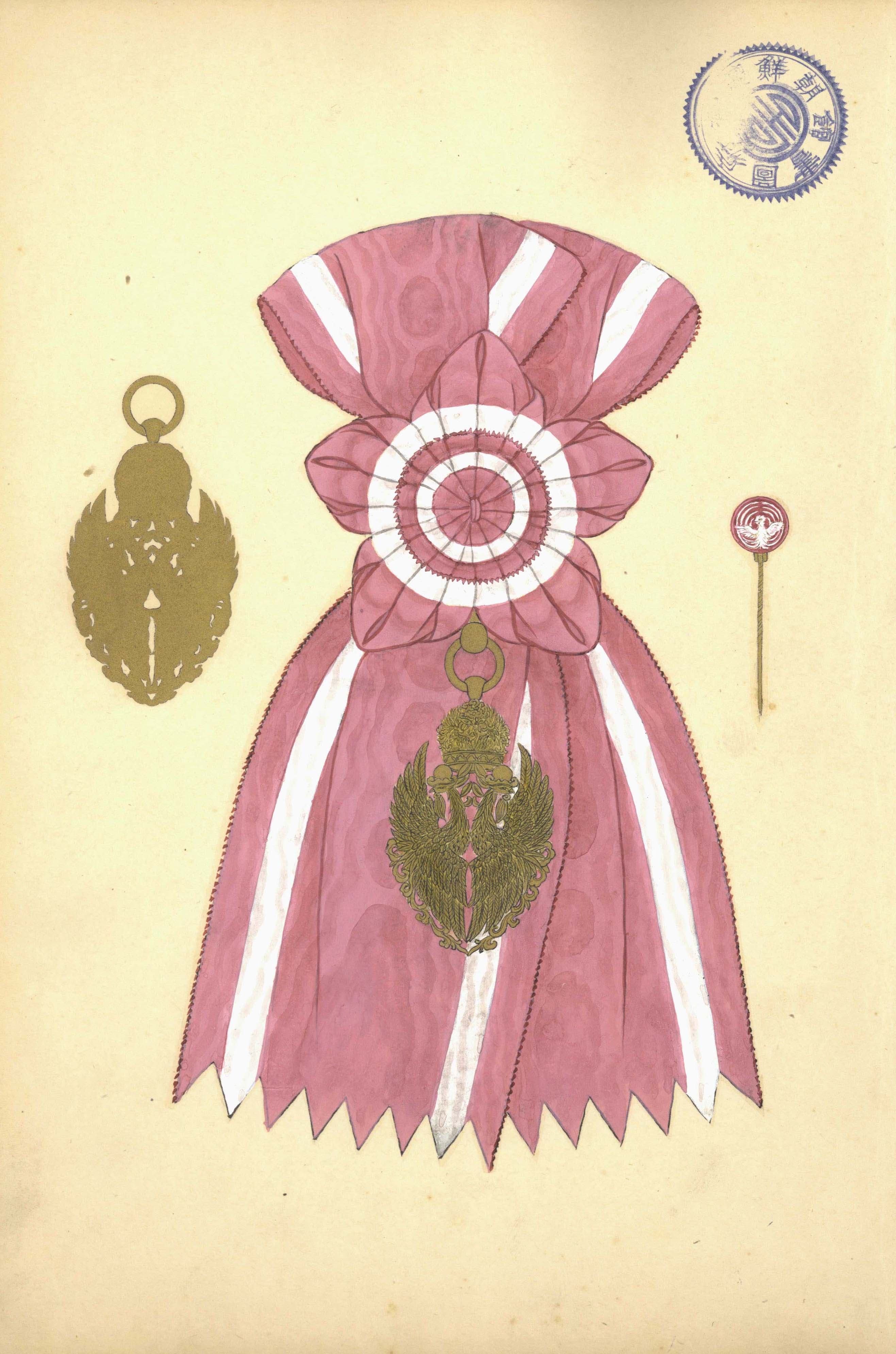 Order of the Auspiciou phoenix, Korean Empire